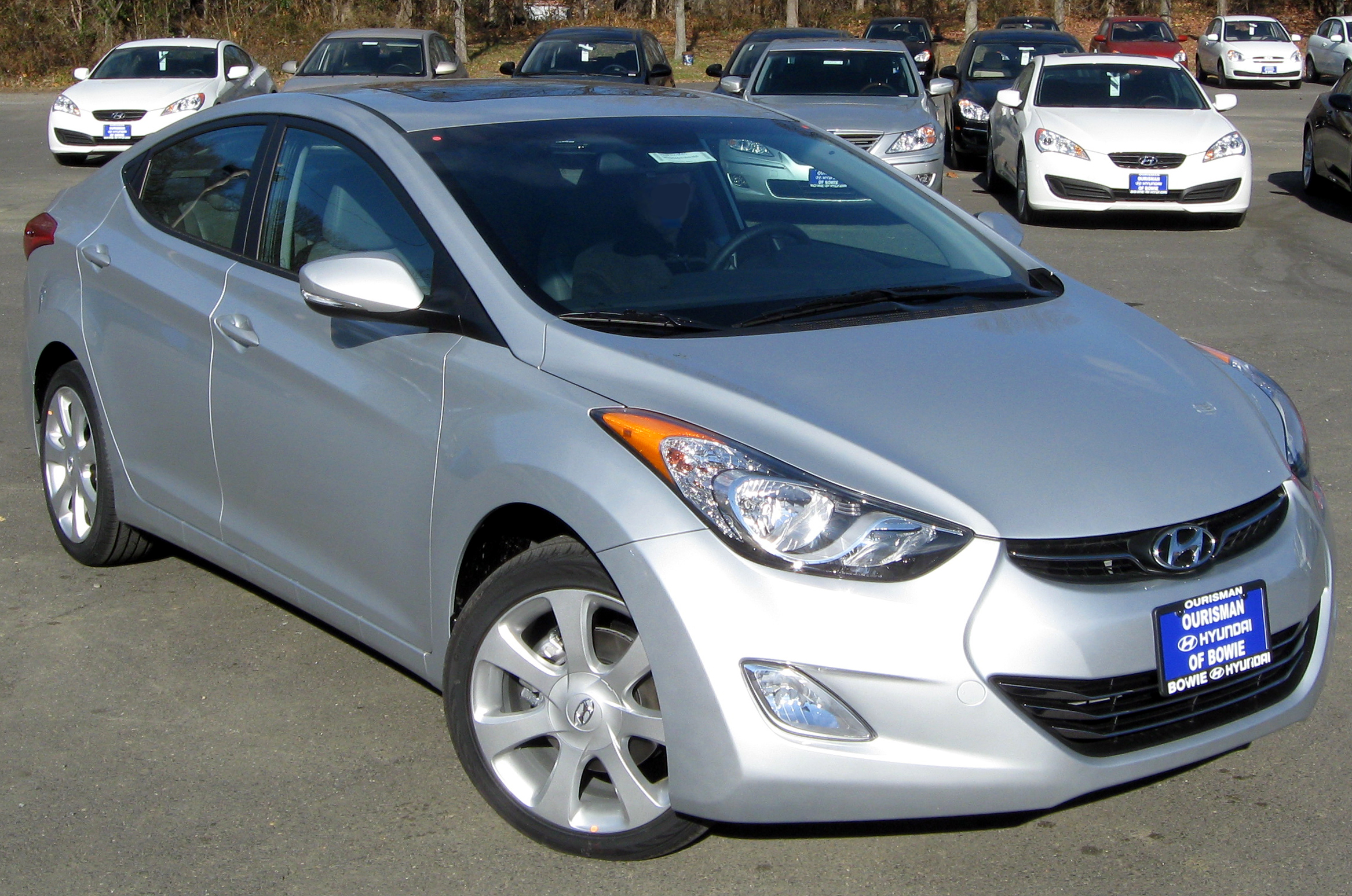 2011 Hyundai Elantra photographed in Upper Marlboro, Maryland, USA.